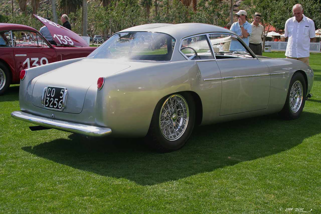 1956 Maserati A6G/54 Berlinetta Zagato. 2008 Desert Classic Concours d'Elegance in Palm Springs, California.